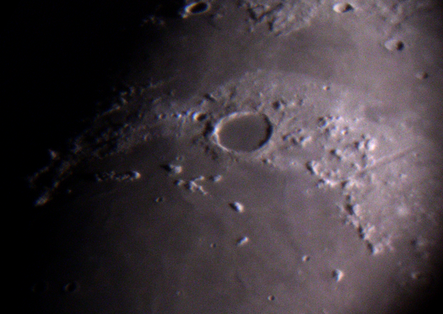 Photo of Moon and crater Plato. Taken: 11/10/2005 10:18:46 PM CST Make:OLYMPUS OPTICAL CO.,LTD Model:C4100Z,C4000Z Description:OLYMPUS DIGITAL CAMERA Exposure Time:1/30.00 sec F Number:2.80 ISO Speed:400 Optical zoom: 3x Telescope, 6" reflector, 100x